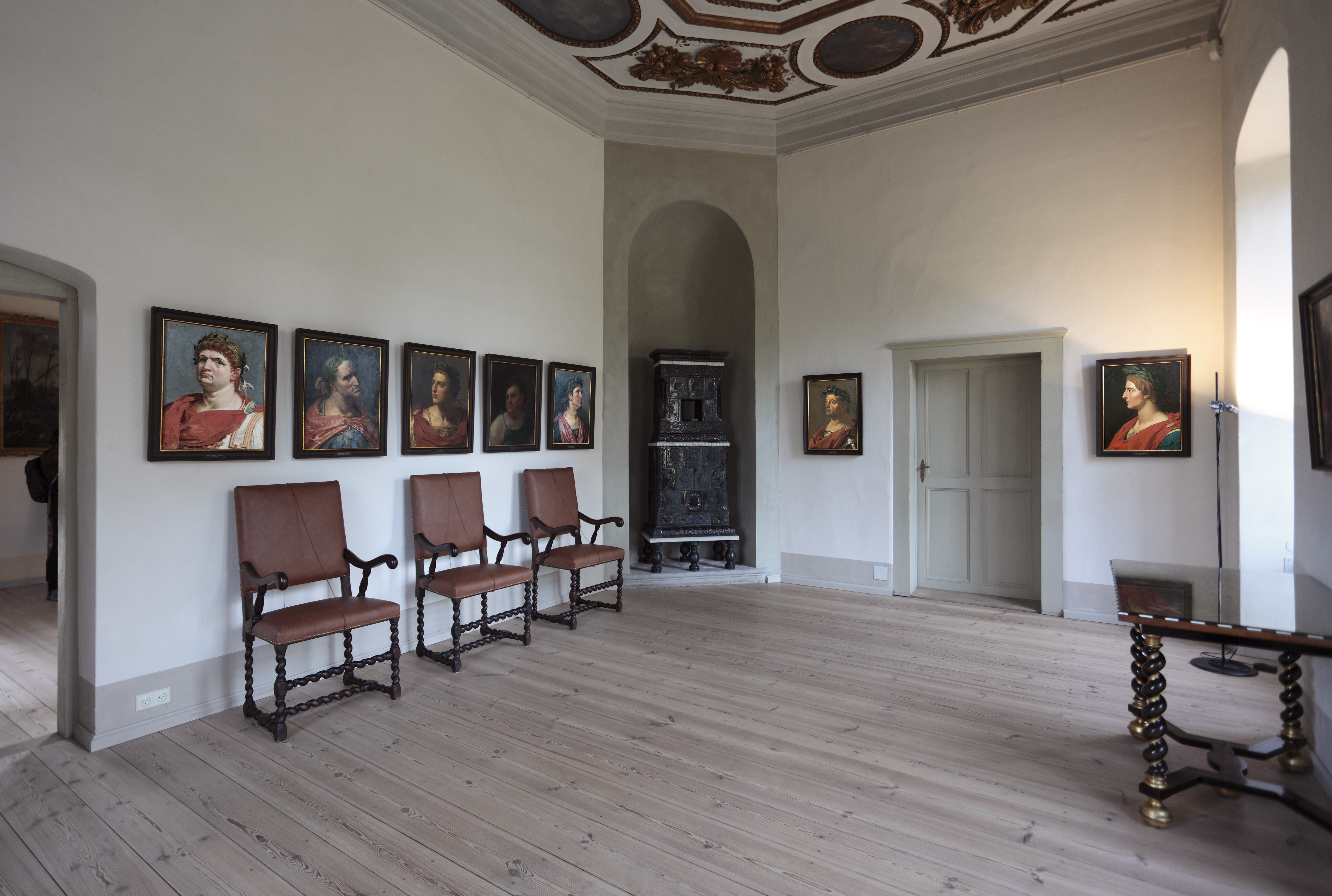 Caputh Palace, antechamber of the elector, with portrait gallery of the first twelve Roman emperors